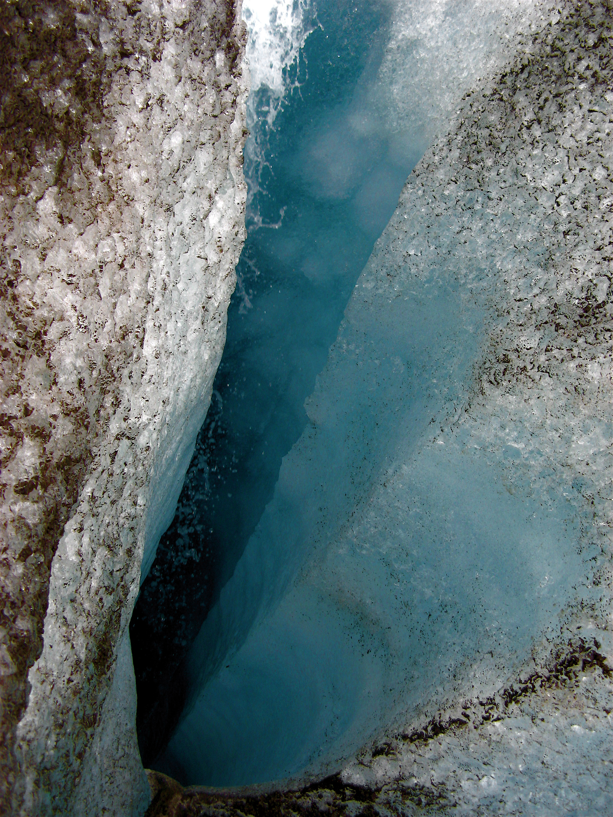 A crevasse (moulin) in the Langjökull glacier, Iceland. At the moment it was perhaps three or four meters long, a meter wide and some 30-40 meters deep.